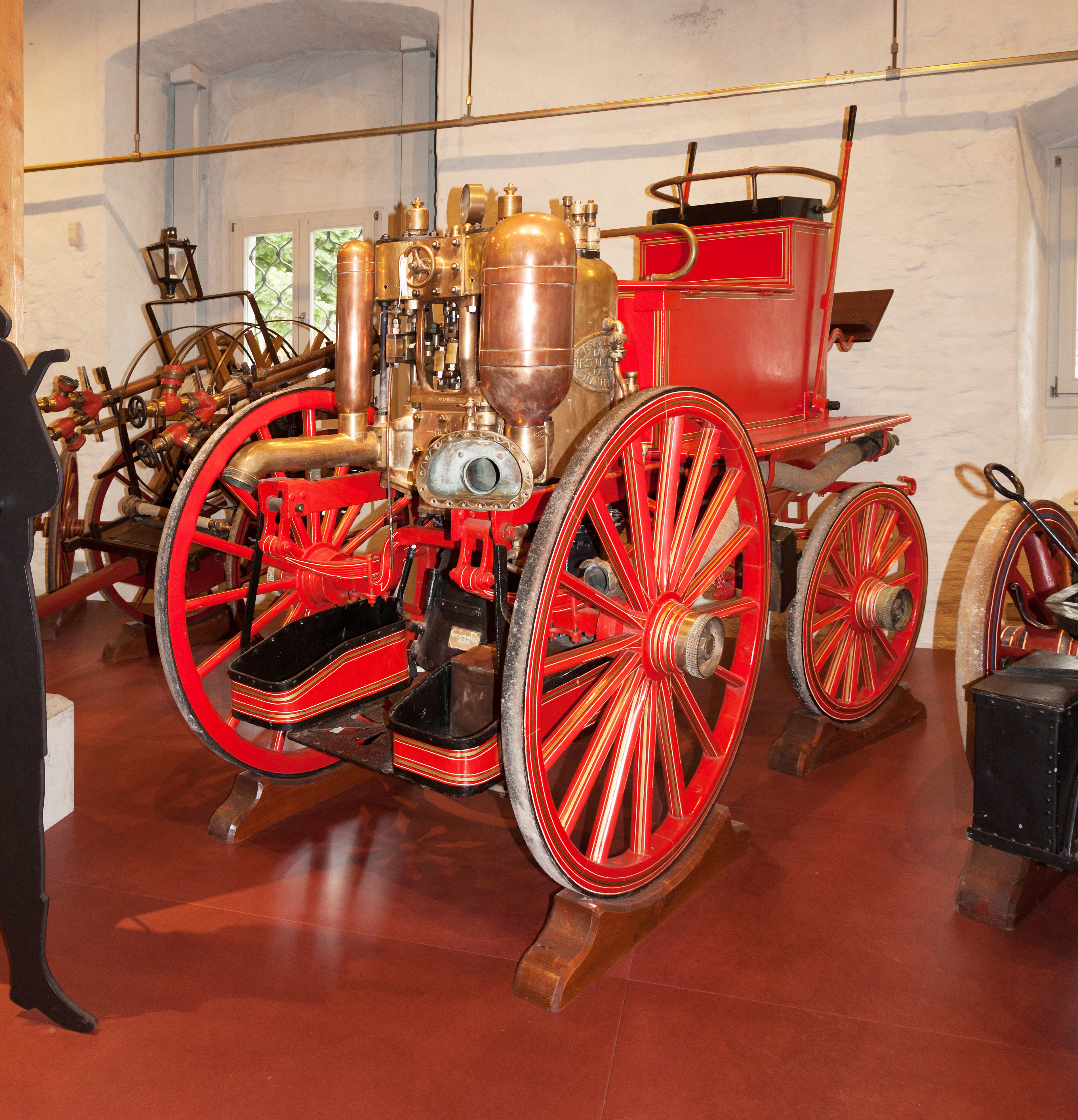 Double cylinder steam fire engine "Greenwich Gem" № 1582 by Merryweather & Sons, London, 1896; Feuerwehrmuseum Salem, Baden-Württemberg, Germany.